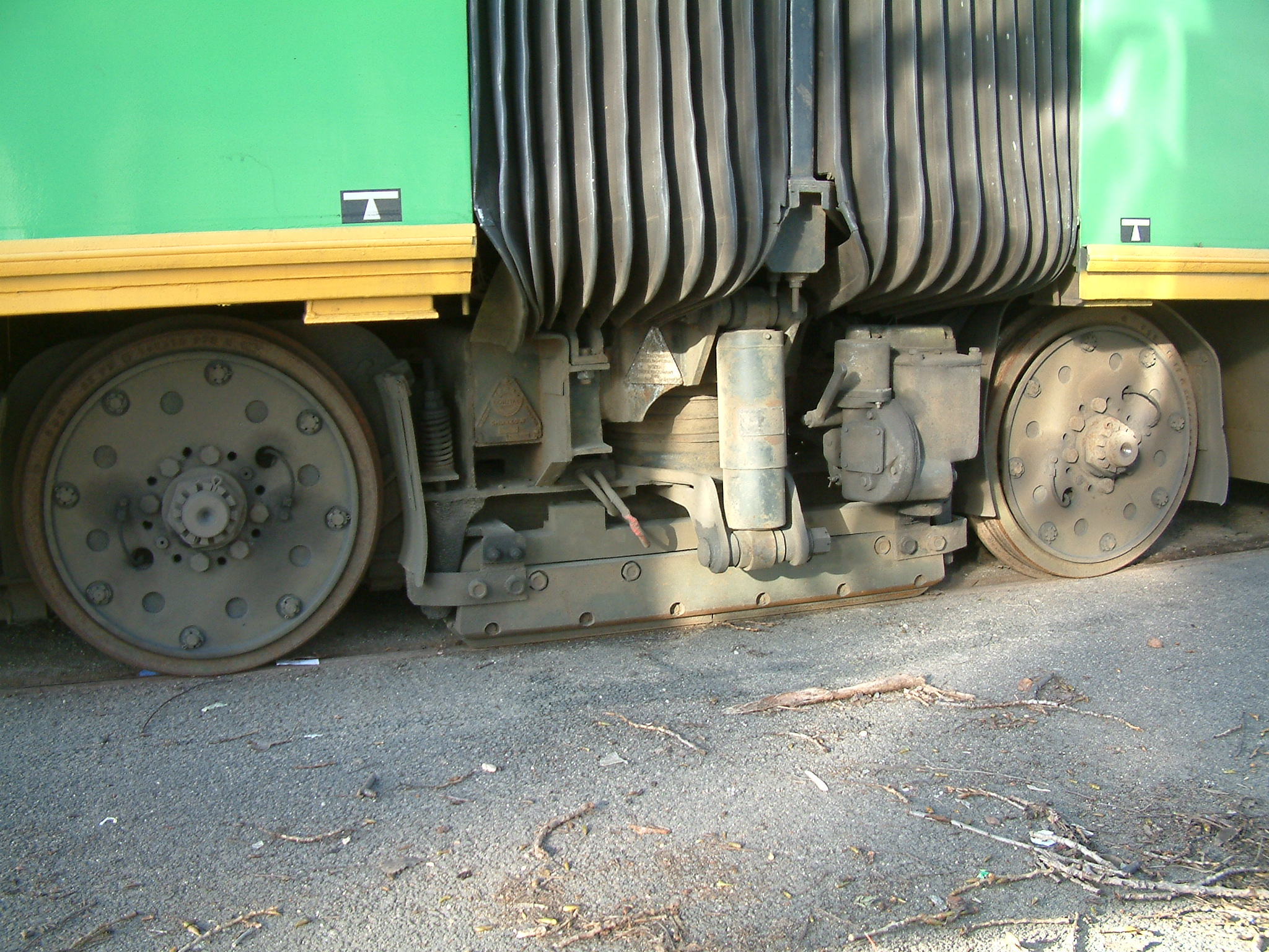 Konstal/HCP 105N/2 (115N) – bogie, Głogowska Depot, Poznań, Poland.